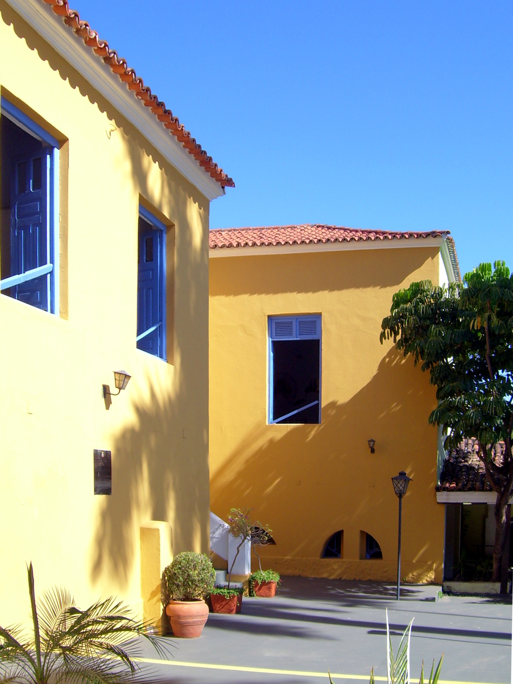 Casa do Artesão, a store of craftwork in Cuiabá, Mato Grosso, Brazil.